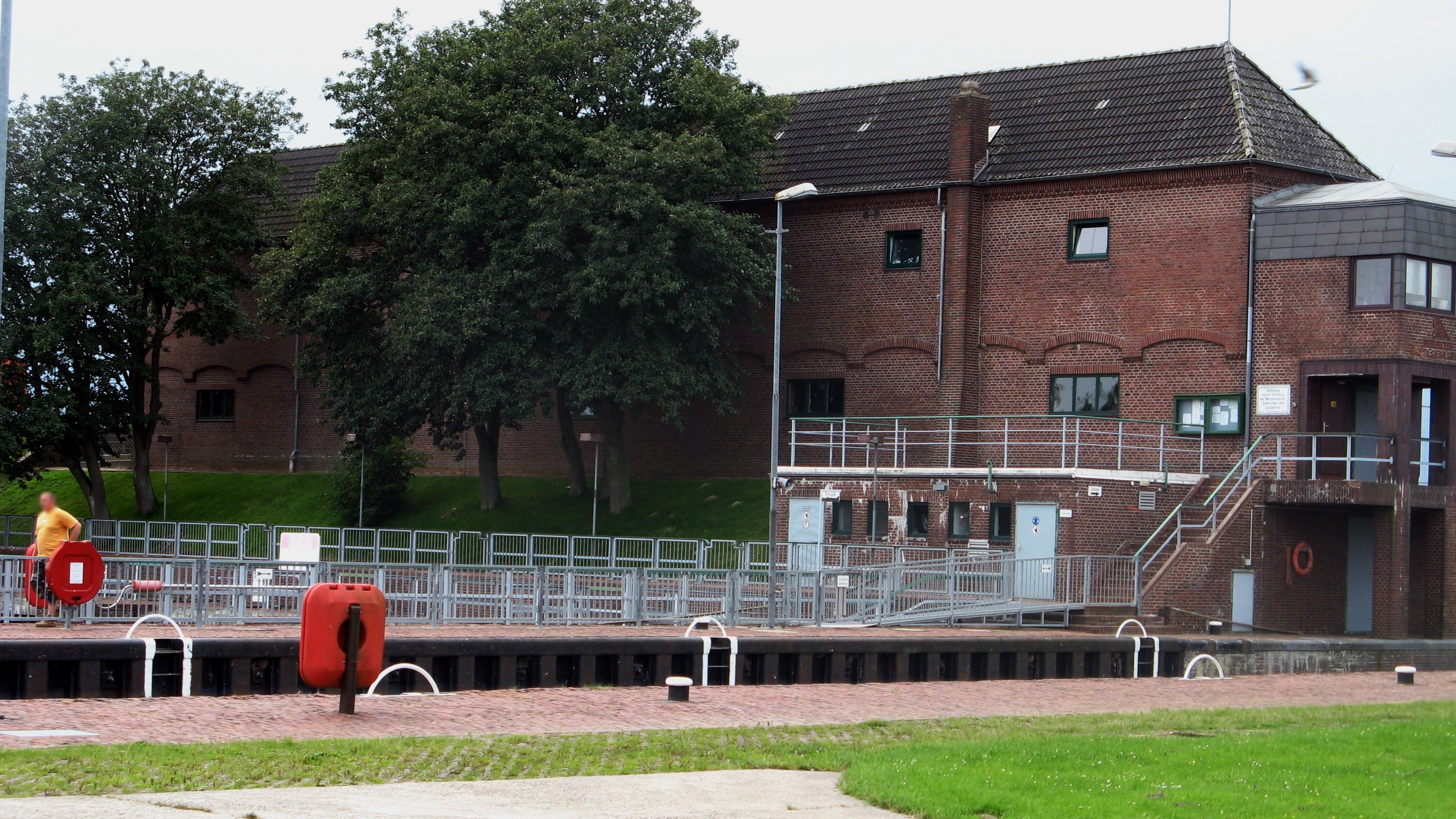 Nordfeld locks on the Eider River